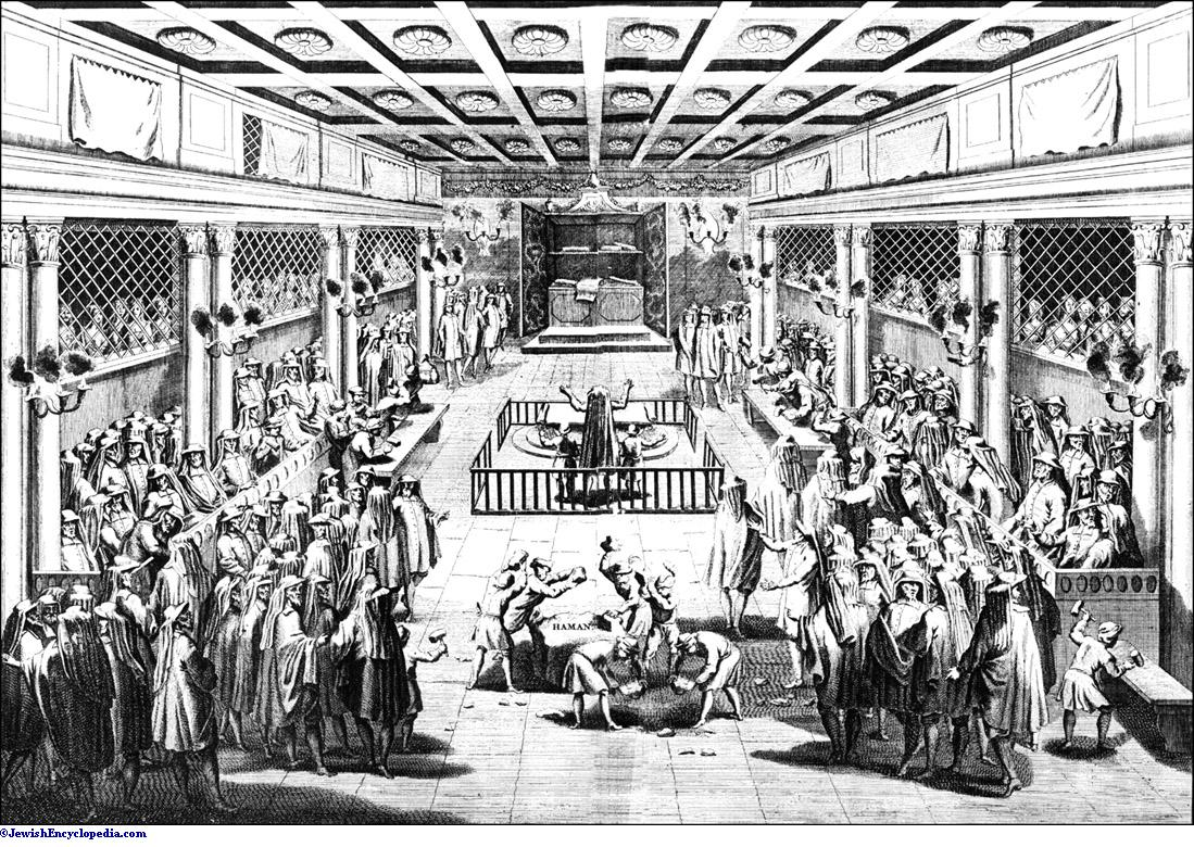 Ancient custom of deleting Haman's name during the reading of the Esther scroll on Purim